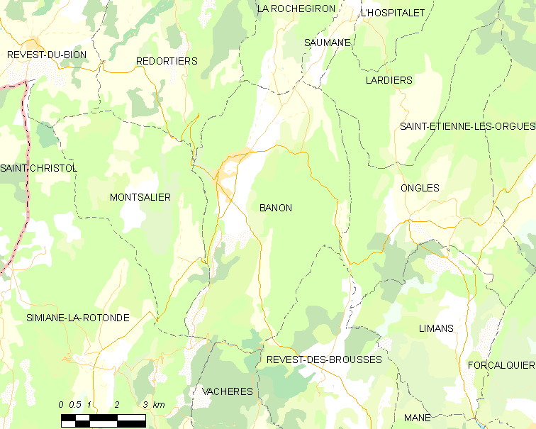 Map commune FR insee code 04018.png Légende